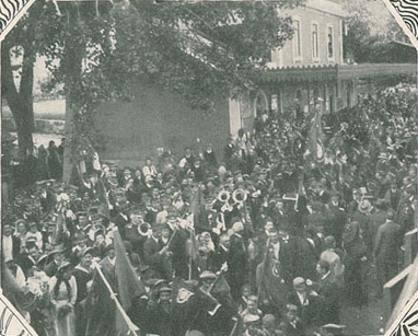 An excursion of republicans from the city of Porto pass through the Vila Nova de Cerveira Railway Station, in Portugal. This image was published on the Ilustração Portuguesa magazine No. 278, of the 19th June 1911, and scanned by the Hemeroteca Municipal de Lisboa.